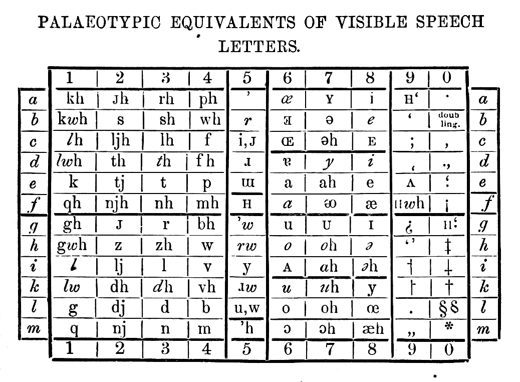 Table with Palaeotype letters. A Visible Speech letters table is available on the same page [1].